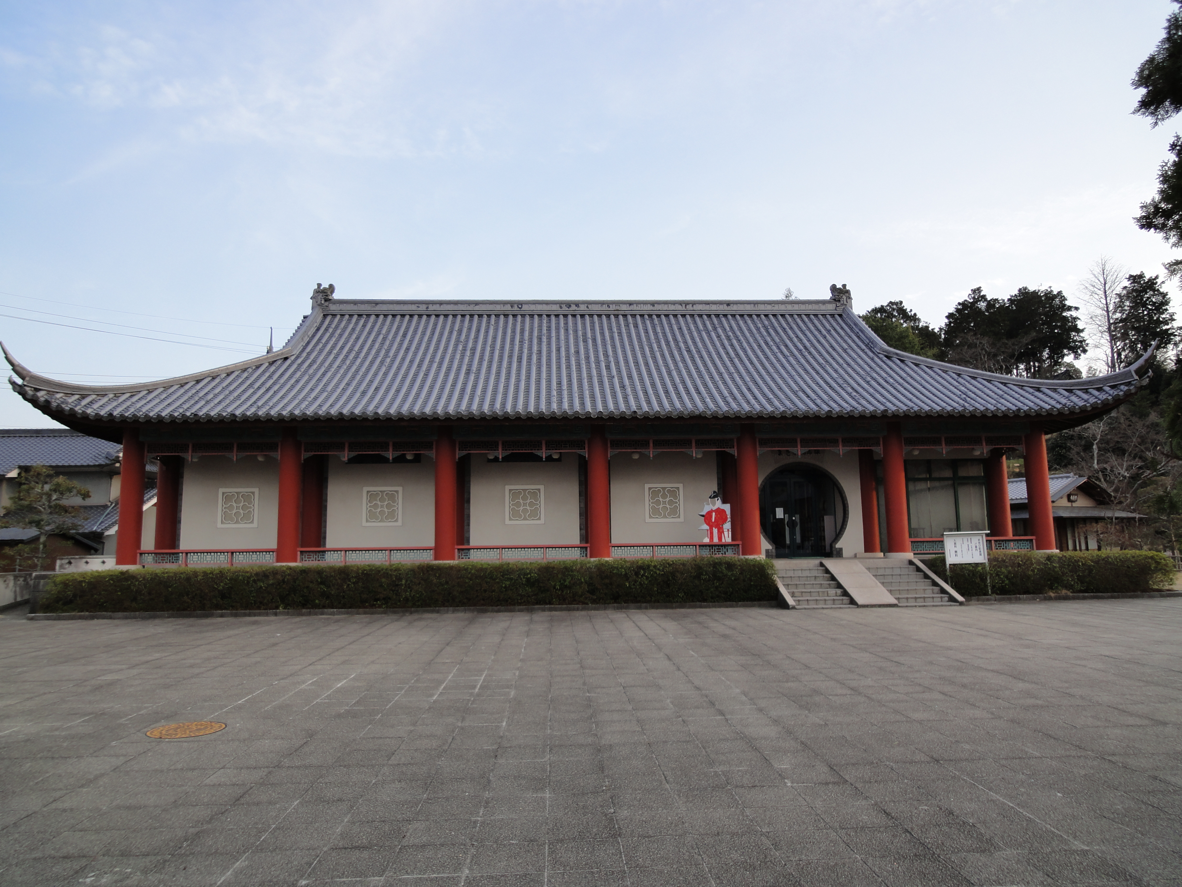 Makibi Memorial Hall, Mabi, Kurashiki, Okayama pref., Japan